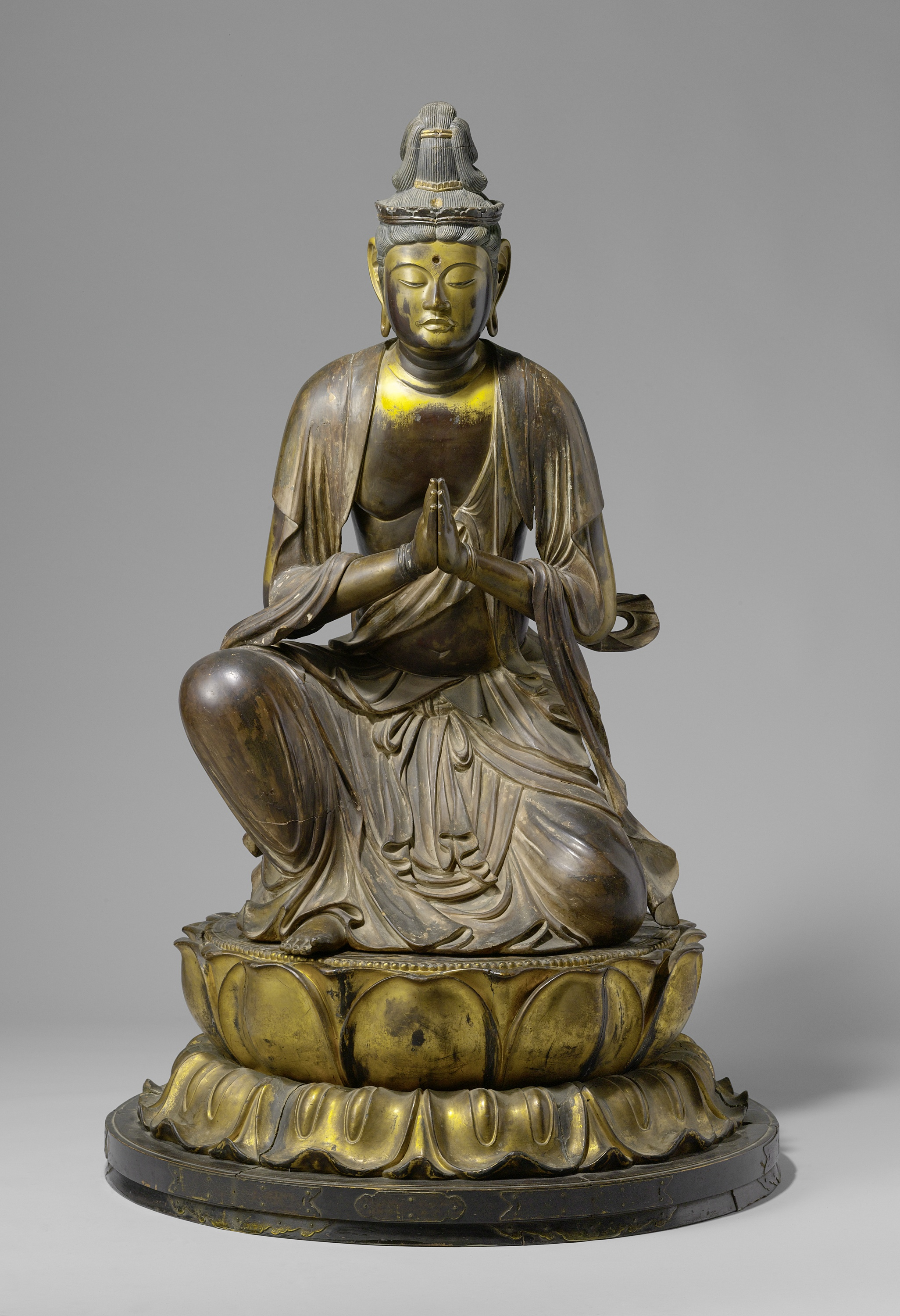 Bodhisattva Seishi (勢至菩薩) figure from the Muromachi period, half squating, half kneeling, his hands in the kongo gassho position (Añjali Mudrā) with the palms together in a vertical position before the chest. With pedestal in the form of curling leaves.